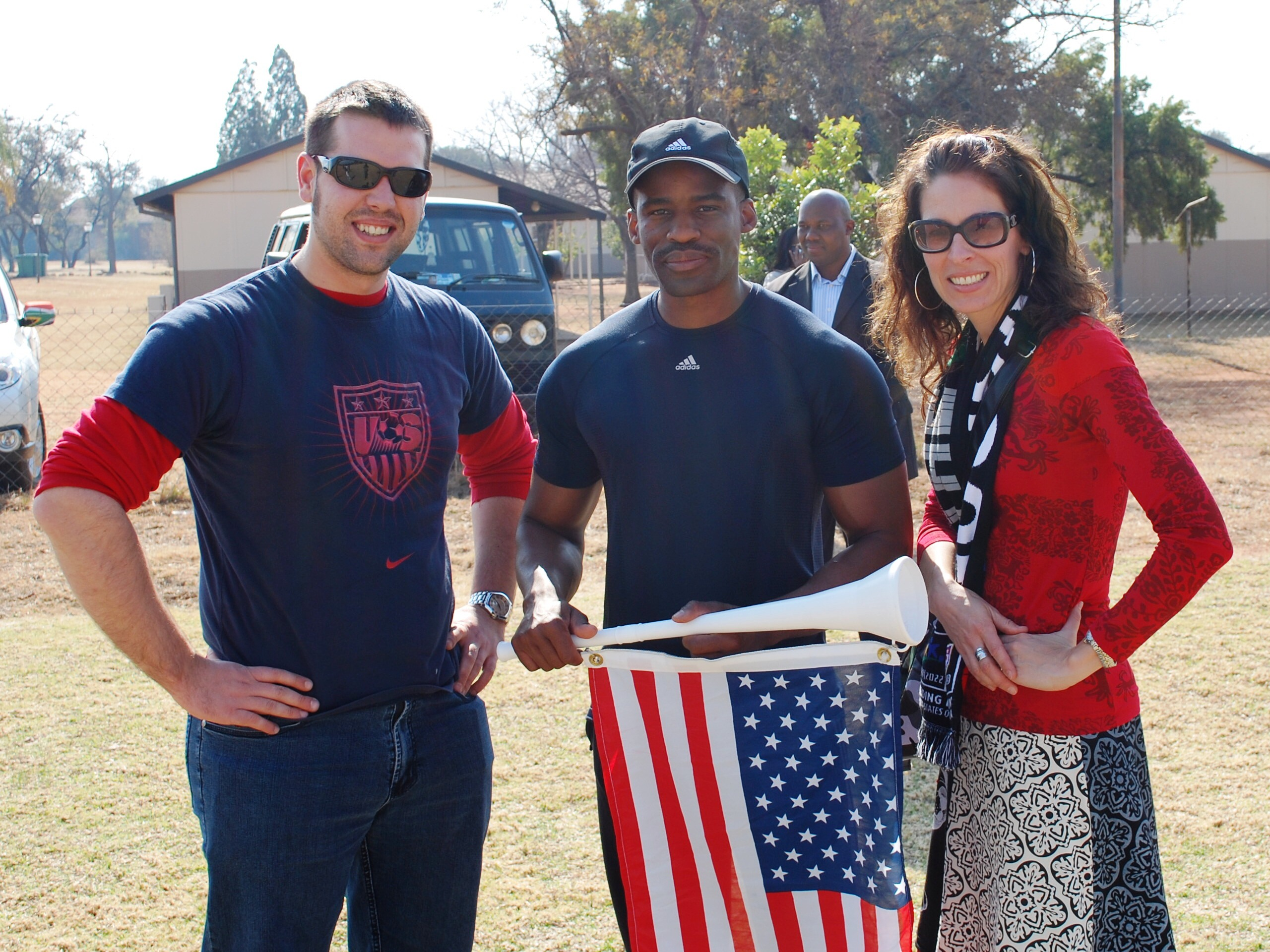 U.S. Embassy Pretoria Press Attache Sharon Hudson-Dean poses for a photo with King of the Royal Bafokeng Nation, Kgosi Leruo Tshekedi Molotlegi, and a fellow U.S. Embassy Pretoria staff member before two Under-11 Bafokeng Football Academy teams previewed the FIFA 2010 World Cup match between the United States and Ghana by playing each other as the “U.S.” and Ghana” on June 25, 2010, in Rustenburg, South Africa. The game highlighted the development of rural soccer in South Africa, particularly in the Royal Bafokeng Nation, which consists of twenty-nine villages located in the Rustenburg Valley in the North West Province. [State Department photo/ Public Domain]